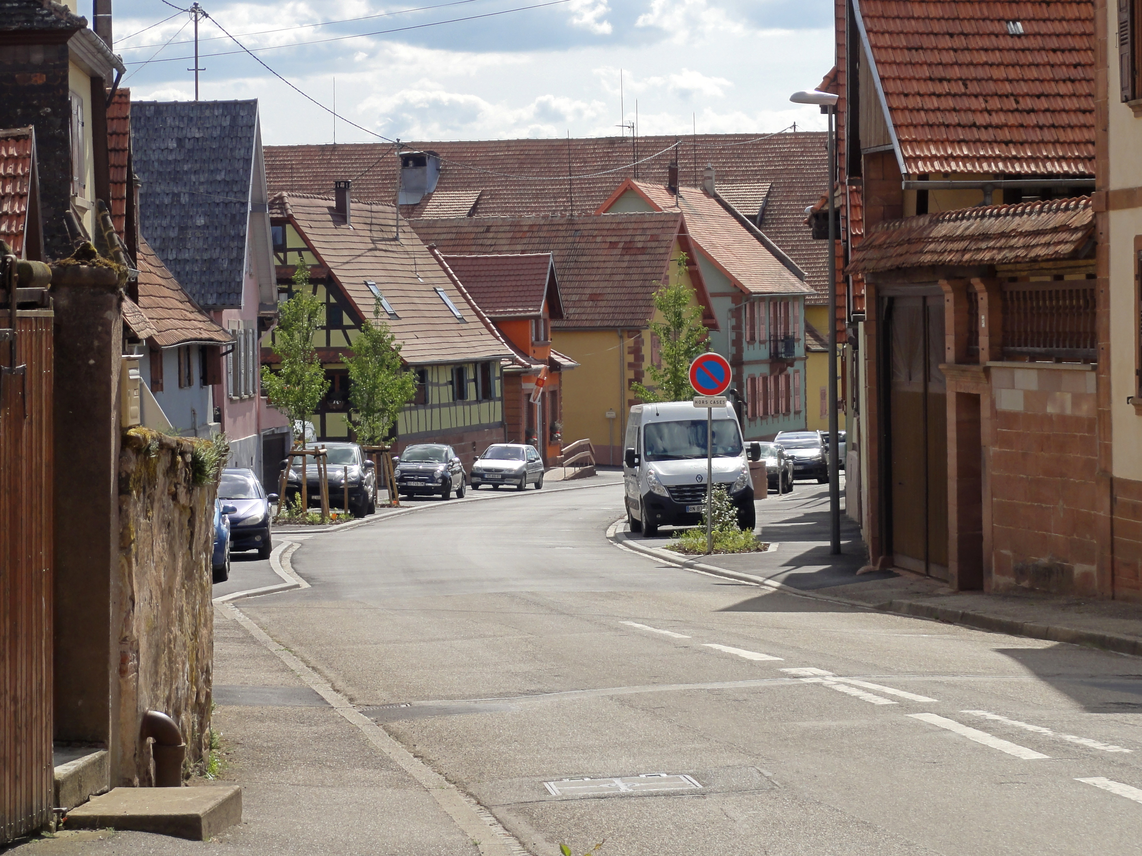 Alsace, Bas-Rhin, Ringendorf, Rue Principale.